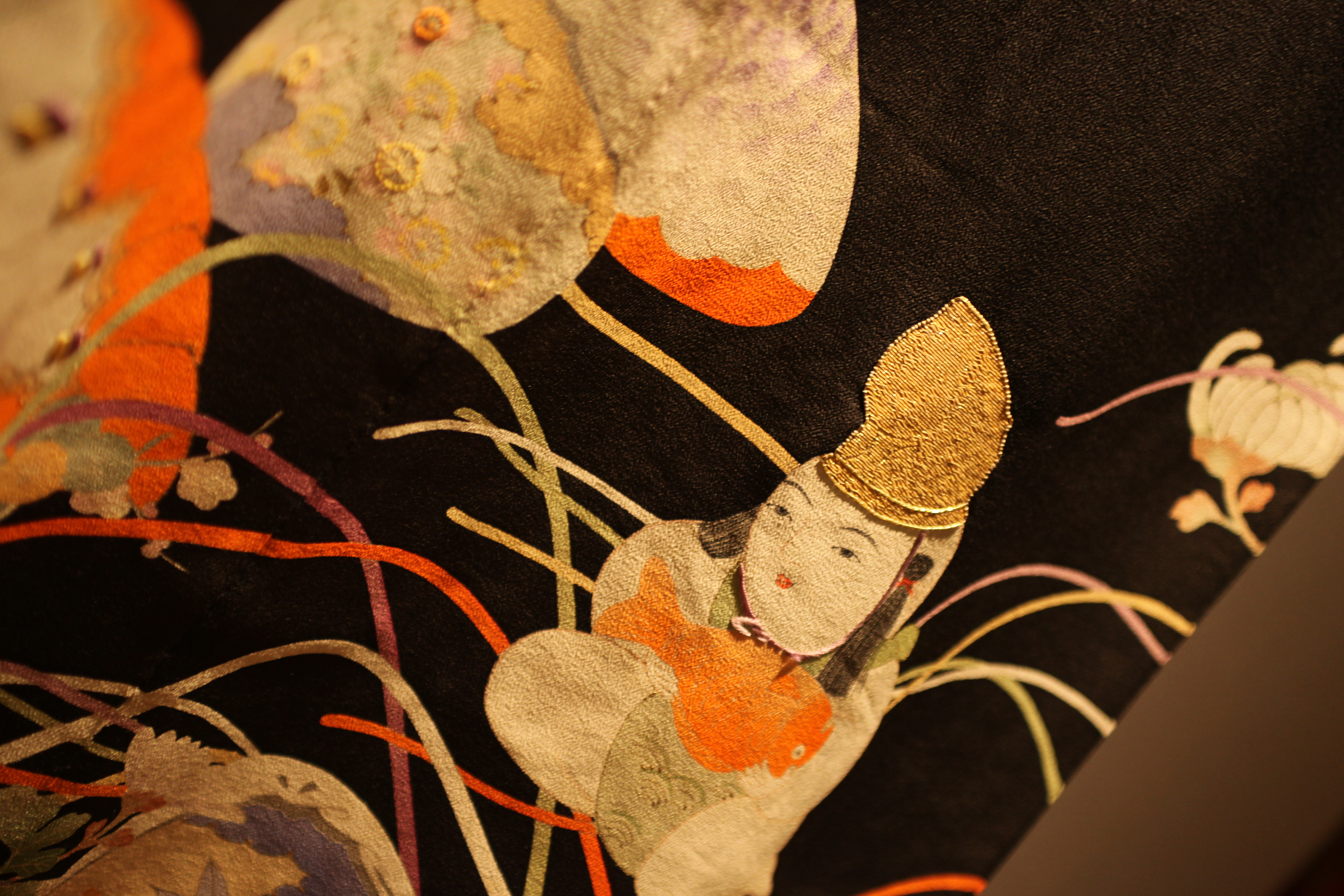 Detail of a kurotomesode (kimono for women) with five kamon, Taishō period, formal, black crape of silk (chirimen) painted by hand (yūzen), embroidery and applications in gold, 132 x 175 cm, part of the Gloria Gobbi Collection of ancient kimono, Rome; shown in an exhibition named: Shunga. Arte ed eros in Giappone nel periodo Edo at Palazzo Reale in Milan, 21 october 2009 - 3st january 2010